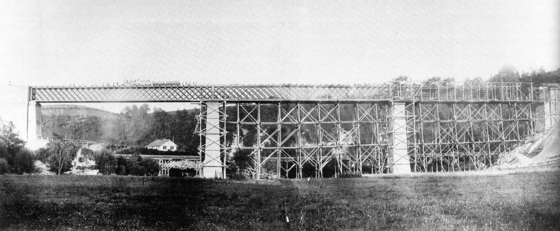 Nesenbach viaduct near Stuttgart-Vaihingen, an iron truss railway bridge (built in about 1877).